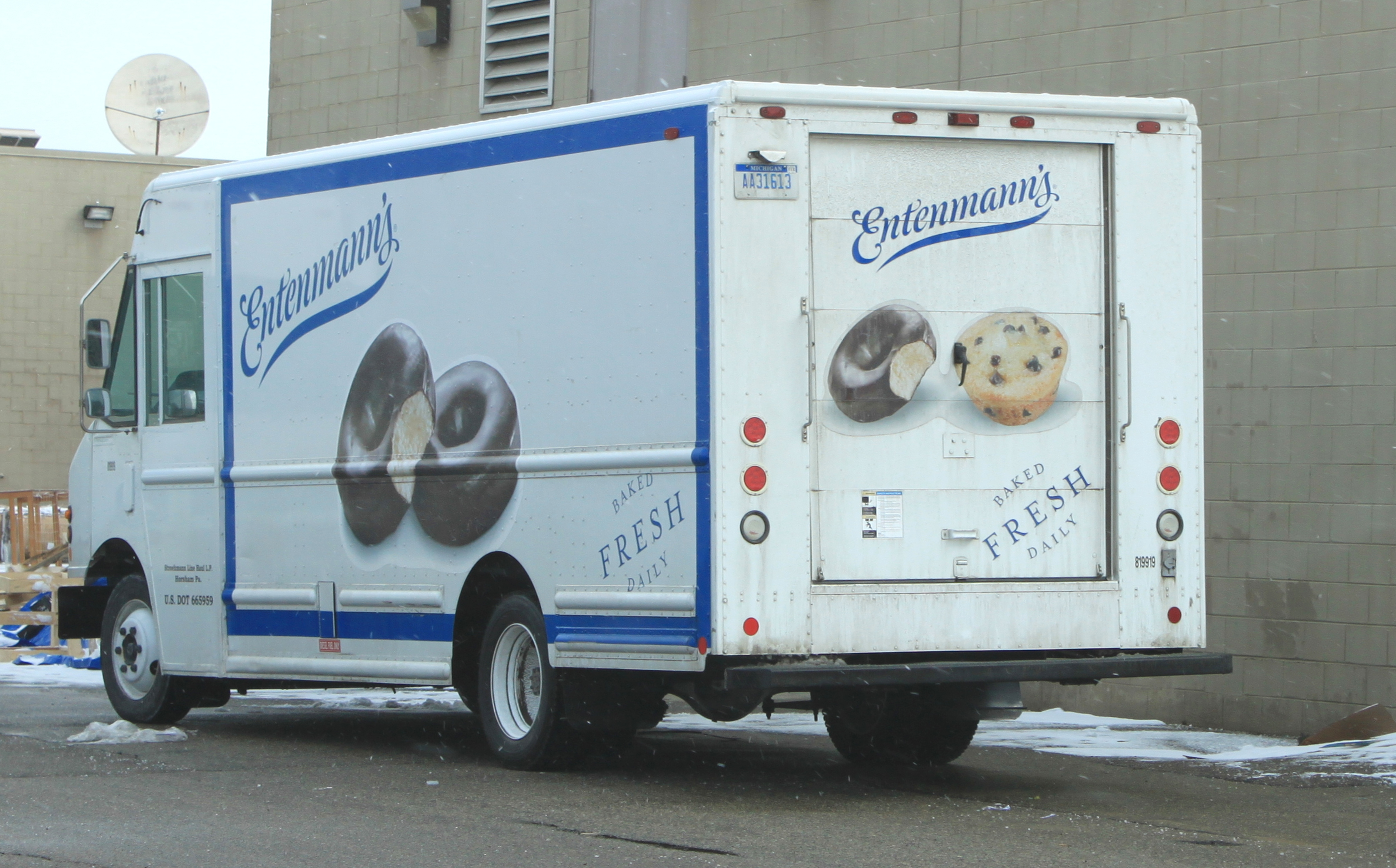 Entenmann's bakery delivery truck, Carpenter Plaza Shopping Center, 3400 Carpenter Road, Ypsilanti, Michigan.